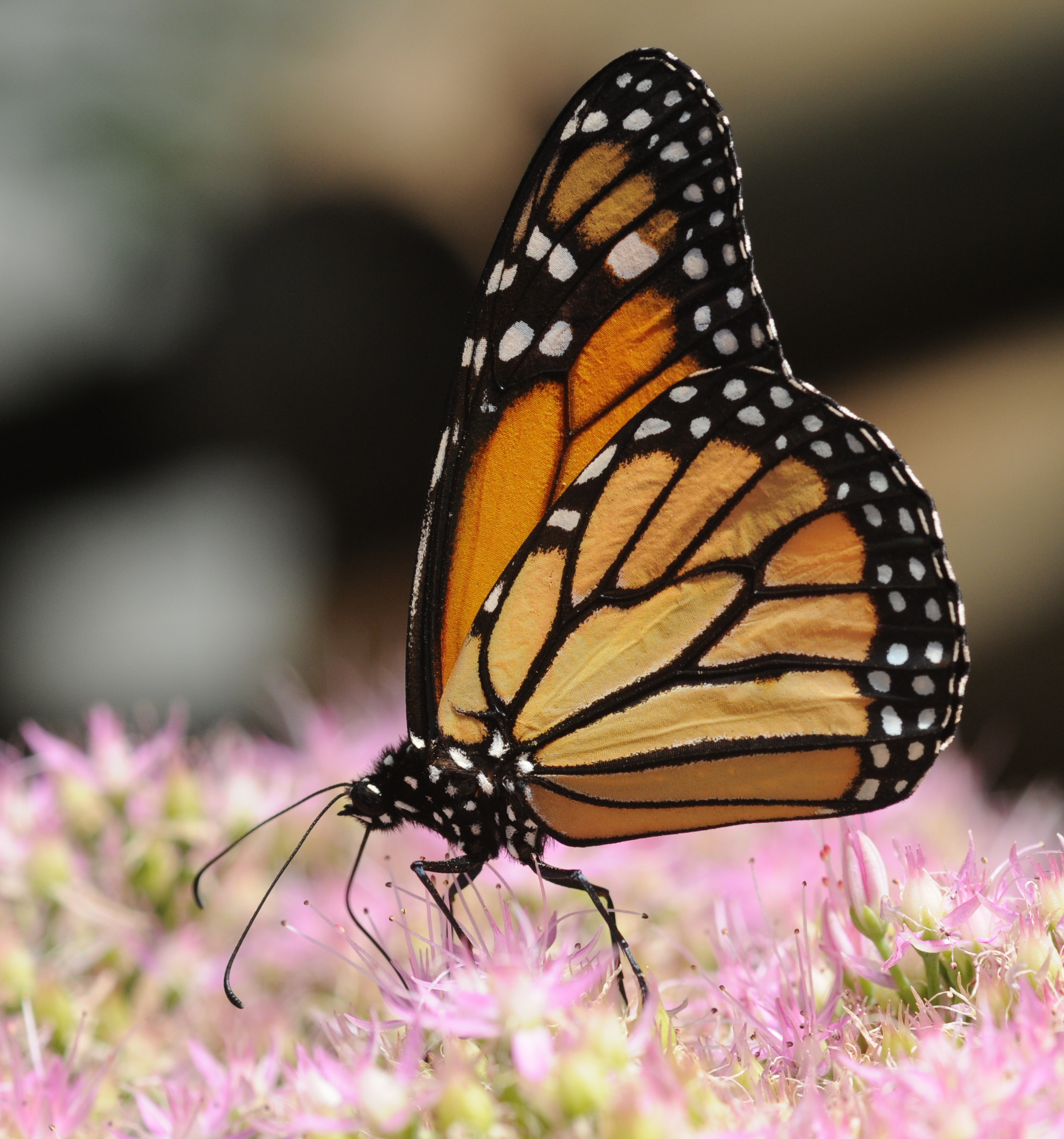 A Monarch.